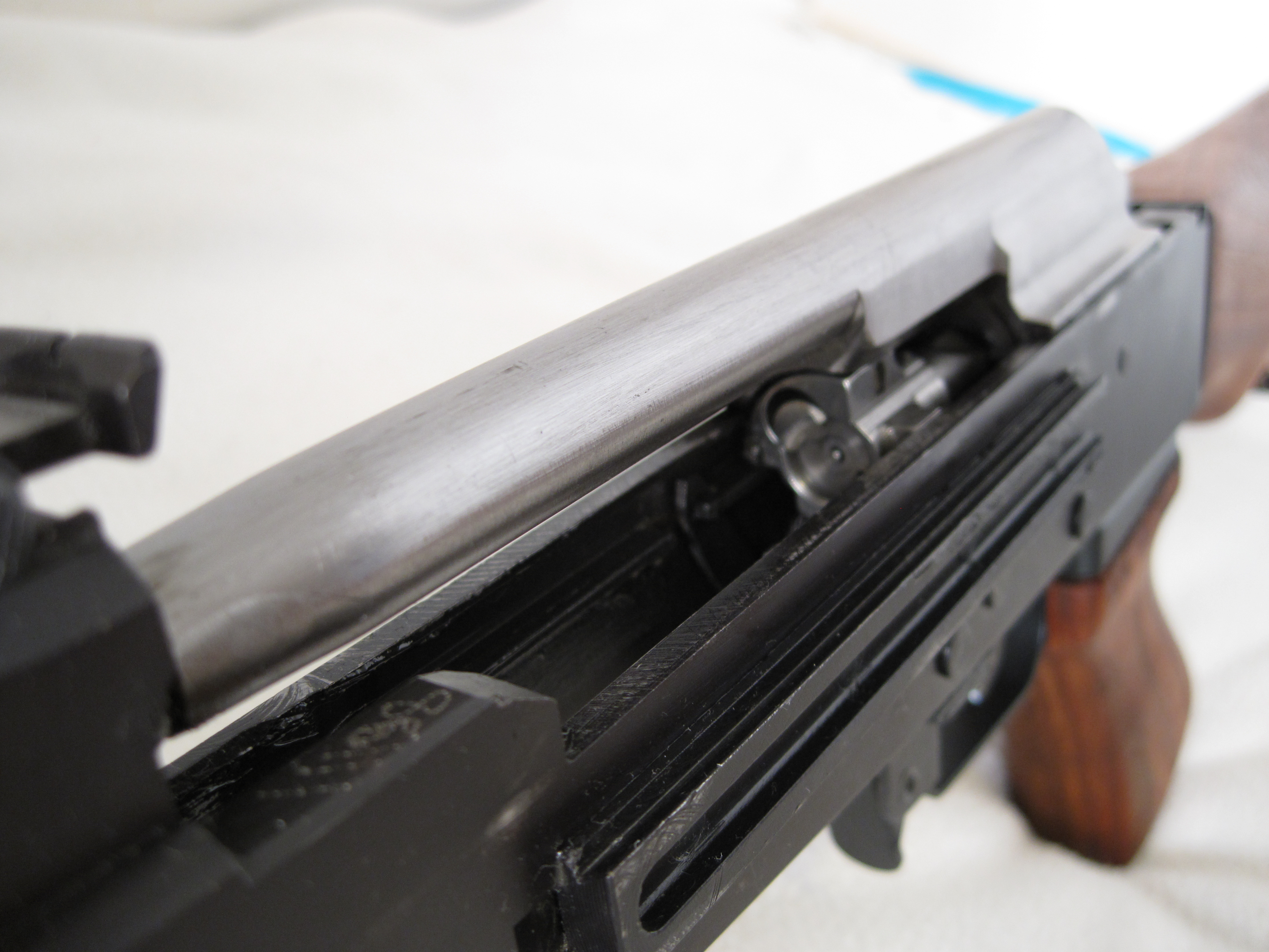 Bolt of Zastava M-76